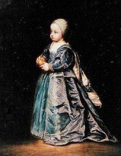 So-called portrait of Henrietta of England (1644-1670), maybe portrait of her brother James II (1633-1701) Clearly not by Van Dyck himself, if the subject is correct, as he died 3 years before she was born.